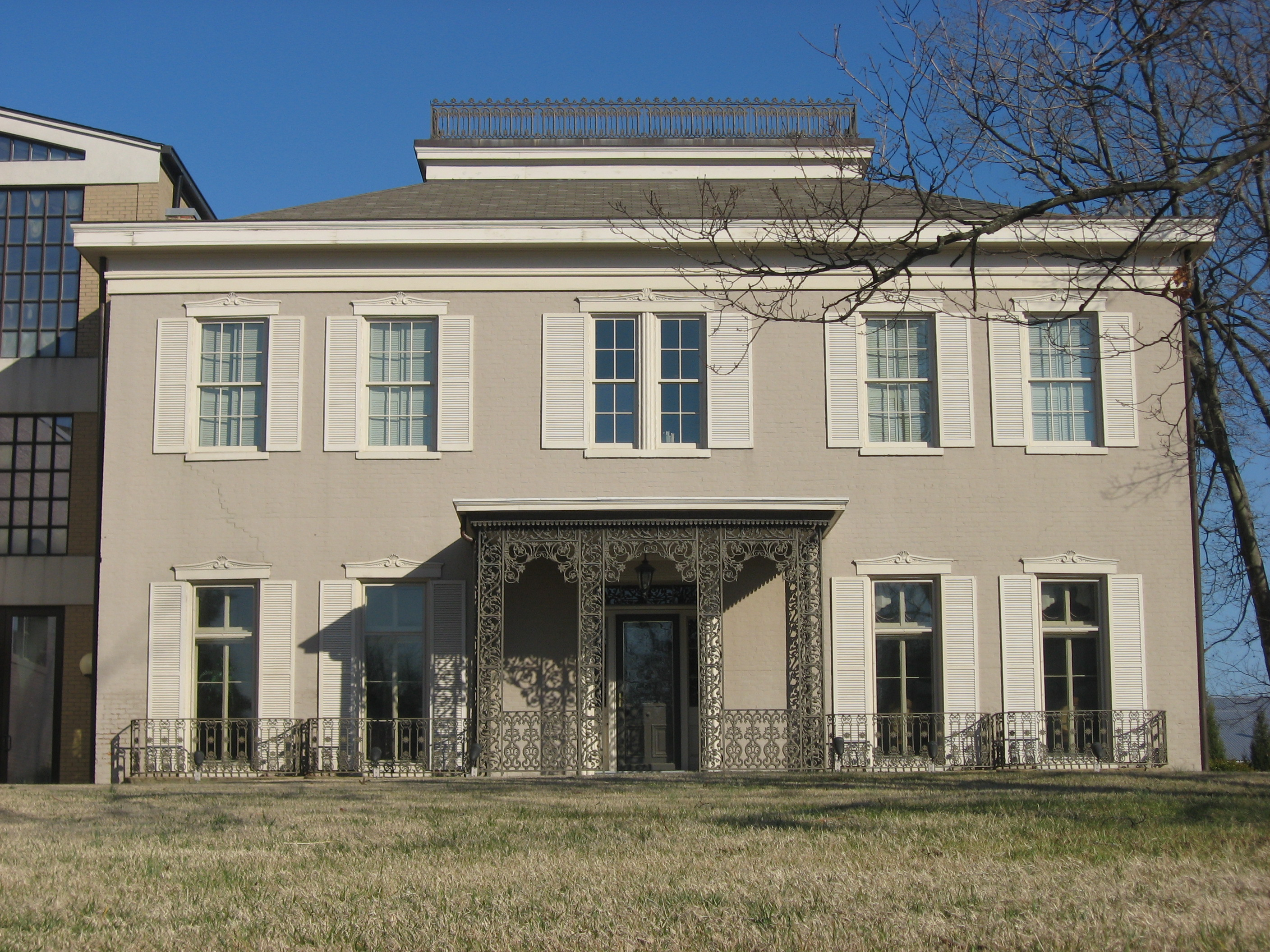 Front of the Hampden Smith House, located at 909 Frederica Street (Kentucky Route 2831) in Owensboro, Kentucky, United States. Built in 1859 and now part of the Owensboro Museum of Fine Art, it is listed on the National Register of Historic Places.